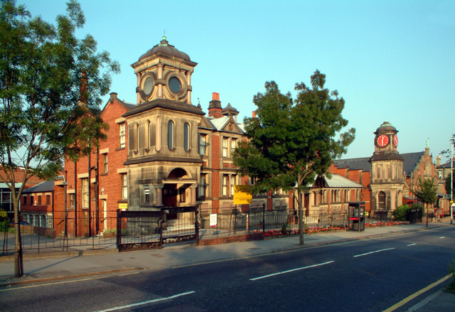 Stanley Technical High School & Halls, South Norwood. William Ford Robertson Stanley (1829-1909), inventor, collector, manufacturer scientific instruments and philanthropist, lived in Croydon, and founded and designed the halls and technical school known as Stanley Halls, at 12 South Norwood Hill. This Grade 2 listed building is sometimes described as the 'Jewel in South Norwood's Crown' - even if it is nowadays a little tarnished. From September 2007, Stanley Technical High will be known as Harris Academy at Stanley.